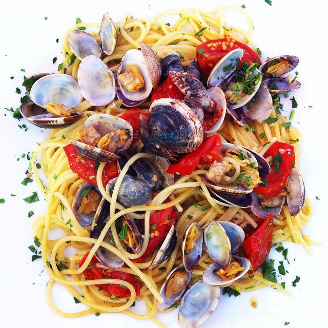 Spaghetti with clams (Alassio, Italy)